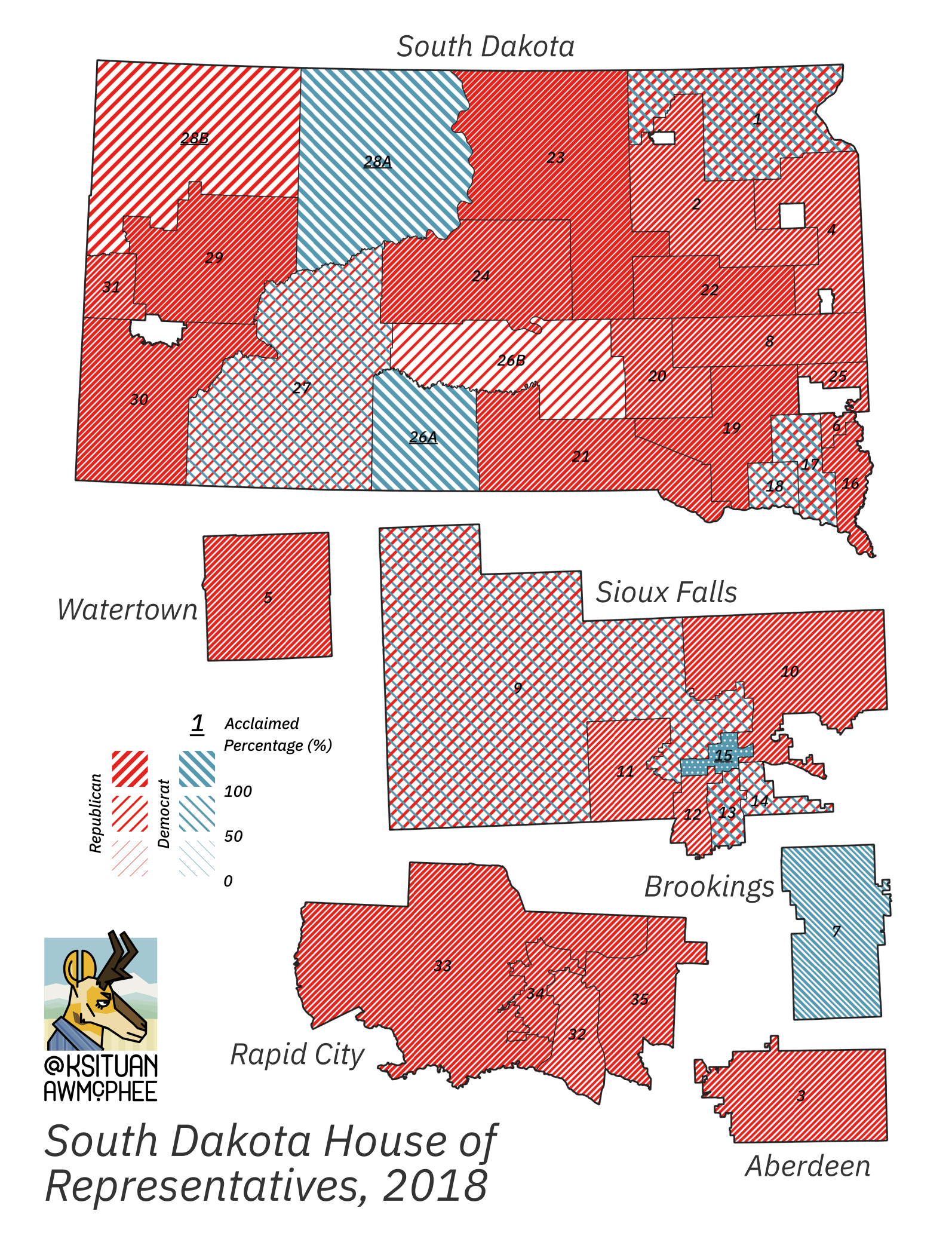 A series of state legislative election maps, created from open data during the summer of 2020. Their common visual style is designed to accomodate all of the unique features of American democracy. They were created using QGIS and Inkscape, two free programs. Please use freely and contact the author with any inquiries about visualizing election data with open-source tools.